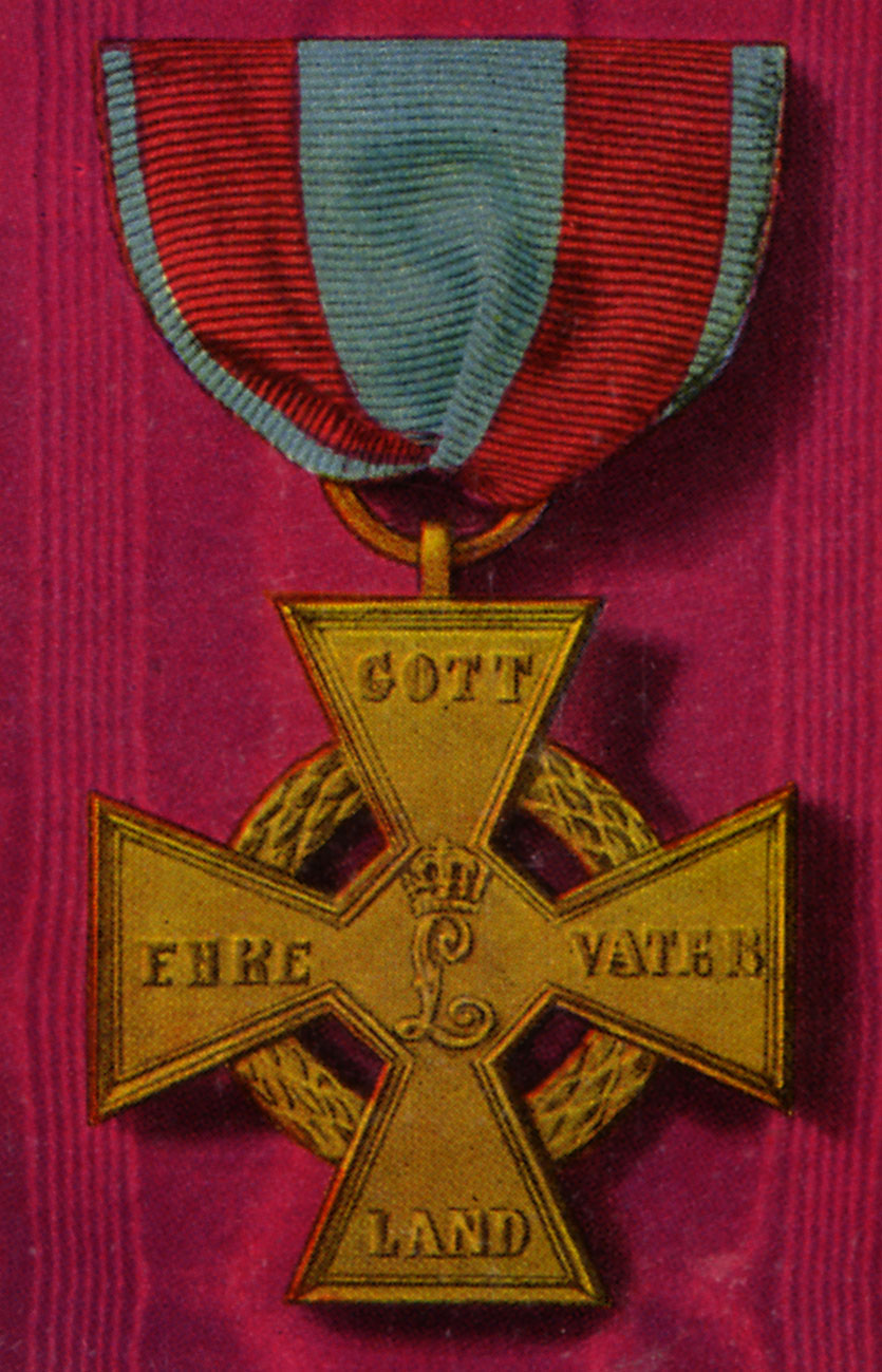 Hesse Military Merit Cross (1870)